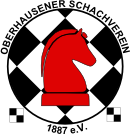 Logo from our Chess-Club